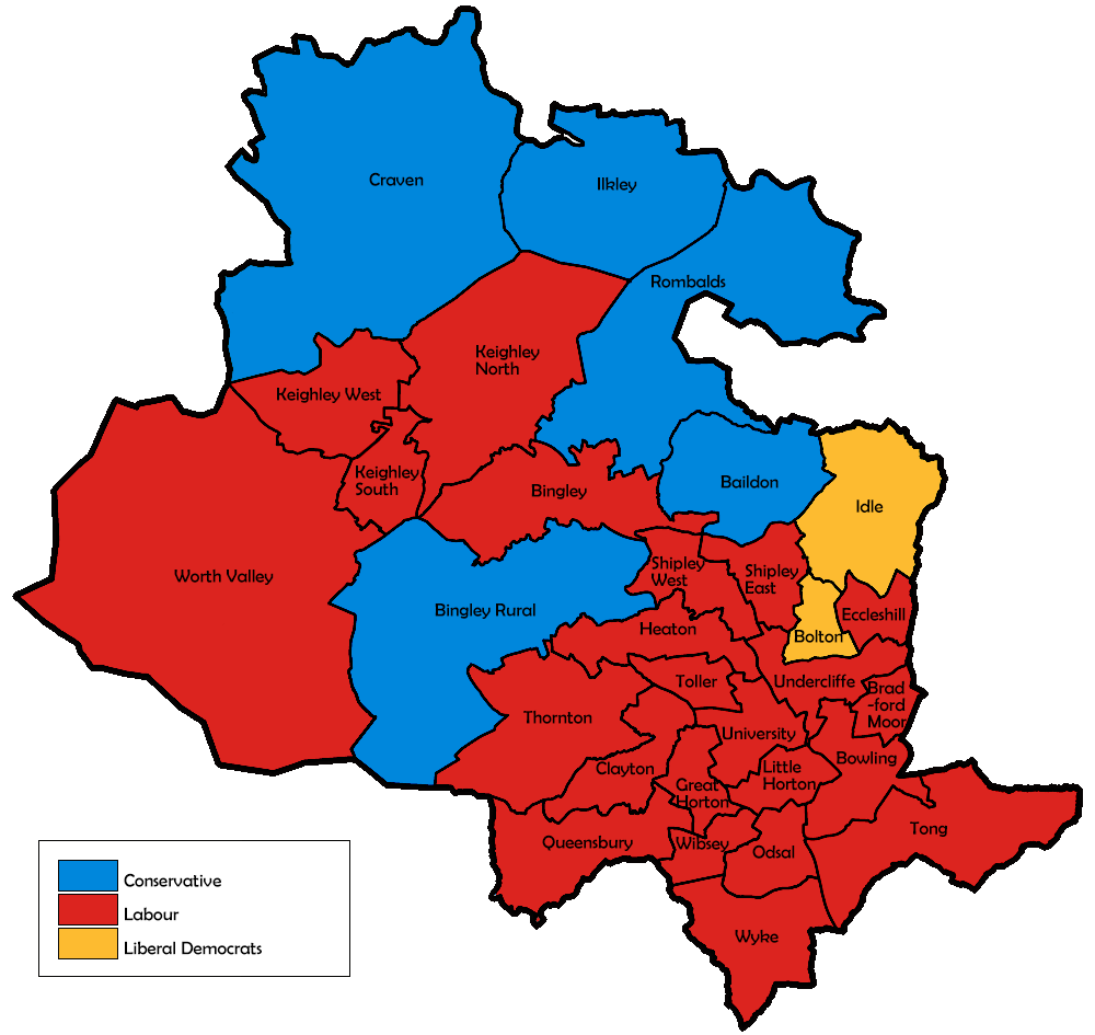 Ward map of Bradford Council with political colouring for the 1994 local election.